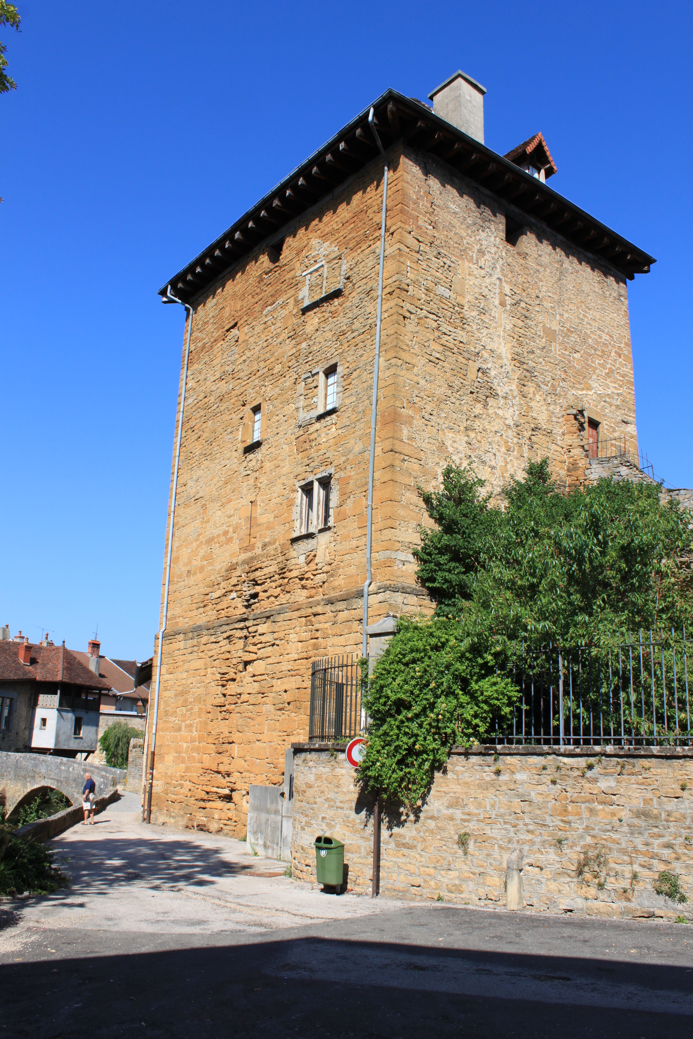 Arbois, Jura, France